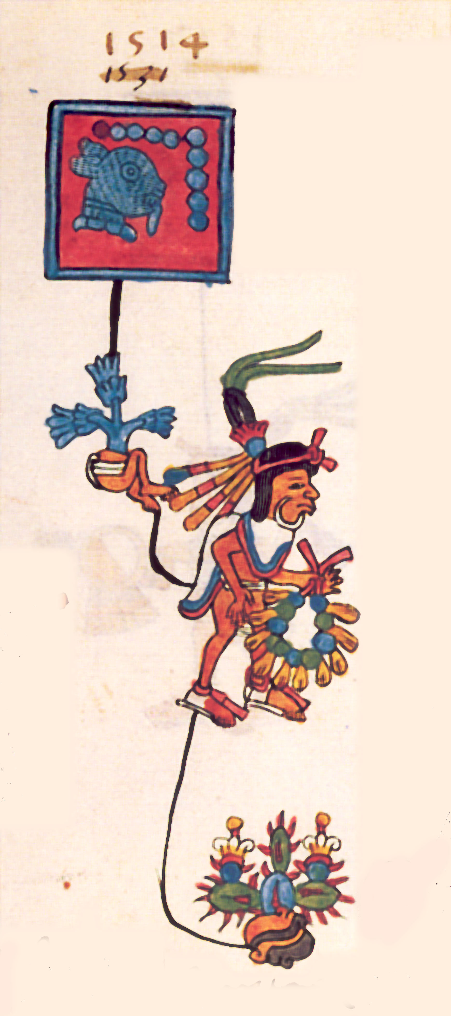 Codex Telleriano Remensis: war between Huexotzinco and Tenochtitlan in 1514.